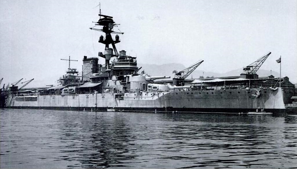 "Minas Gerais after major refit, seen here in 1942. Note the single massive funnel and the twin 20mm atop 'B' turret."